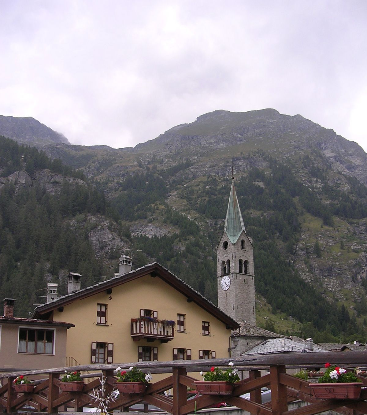 Gressoney-Saint-Jean in summer (Vallée d'Aoste - Italy)